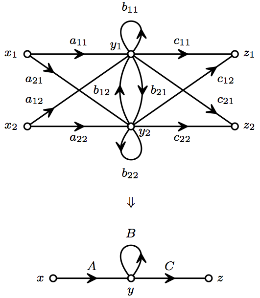 reduction of multi-input multi-output graph to matrix signal-flow graph